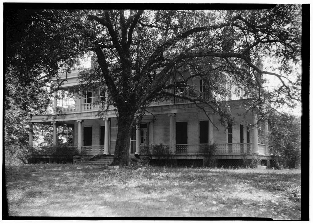 Historic American Buildings Survey James Butters, Photographer October 7, 1936 FRONT (NORTH ELEVATION) - Brandon Hall, Washington, Adams County, MS Title Brandon Hall, Washington, Adams County, MS Contributor Names Historic American Buildings Survey, creator Brandon, Gerard E Created / Published Documentation compiled after 1933 Subject Headings - houses - outbuildings - Mississippi -- Adams County -- Washington Notes - Survey number: HABS MS-151 - Building/structure dates: after 1850 Initial Construction - National Register of Historic Places NRIS Number: 80002198 Medium Photo(s): 4 Data Page(s): 2 Call Number/Physical Location HABS MISS,1-WASH.V,1- Source Collection Historic American Buildings Survey (Library of Congress) Repository Library of Congress Prints and Photographs Division Washington, D.C. 20540 USA Control Number ms0095